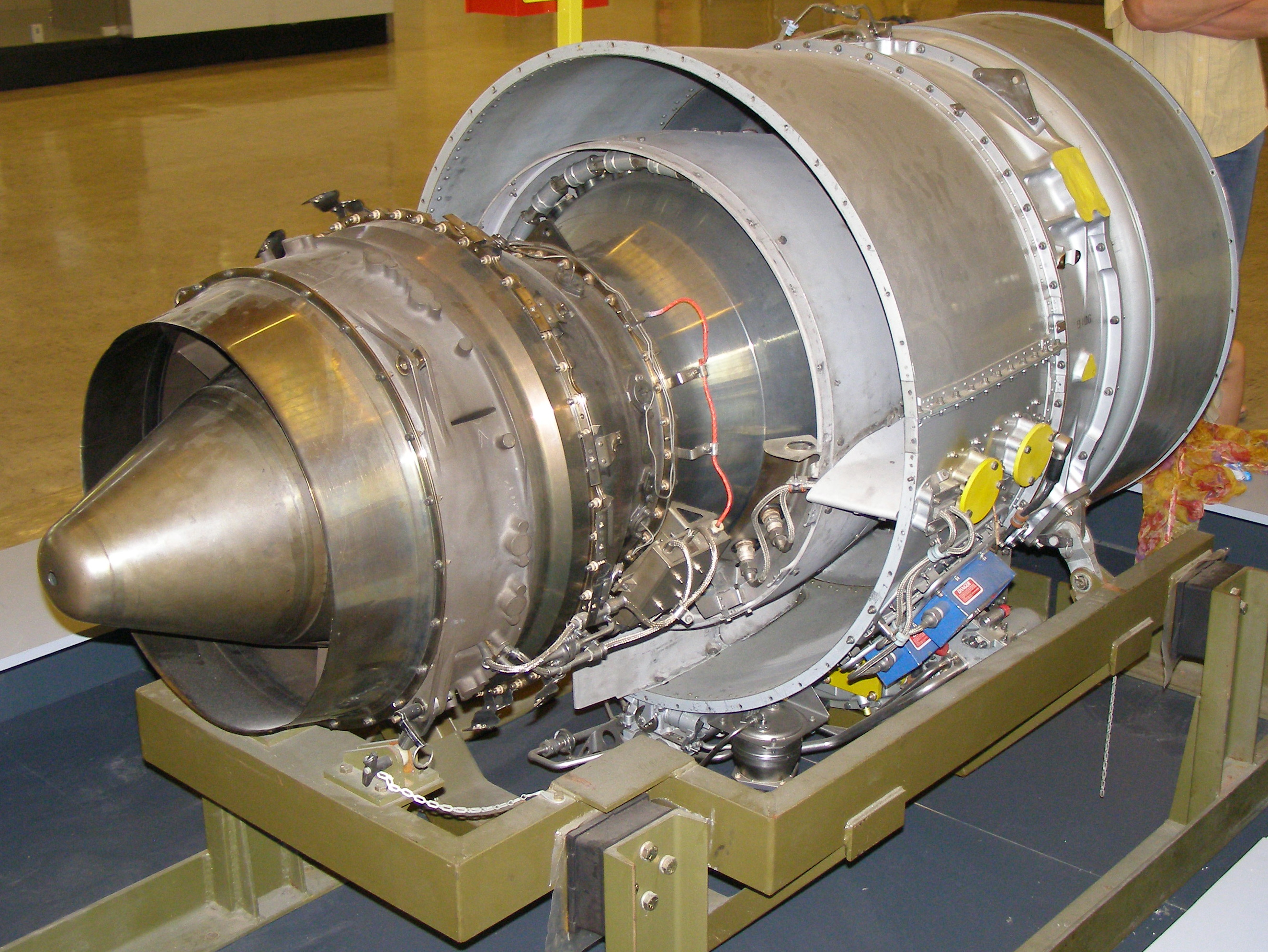 Aircraft engine PW305, by MTU Aero Engines / Pratt & Whittney Canada. (photographed in the main hall of the Airport Tempelhof, Berlin)